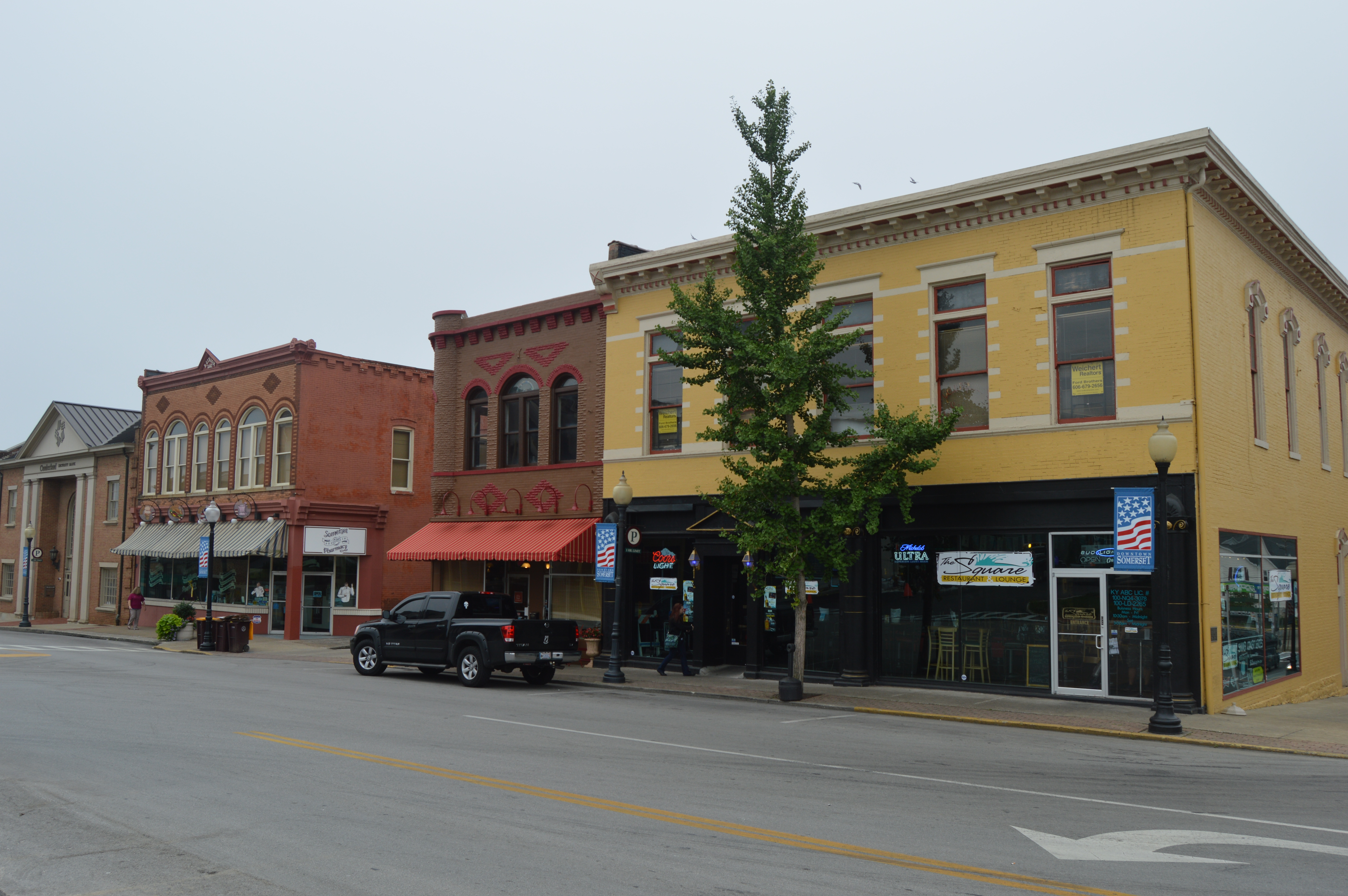 Looking south on Main Street (Kentucky Route 1247) from the intersection with Mount Vernon Street (Kentucky Route 80) on the public square in Somerset, Kentucky, United States. This block is part of the South Courthouse Square Historic District, a historic district that is listed on the National Register of Historic Places.